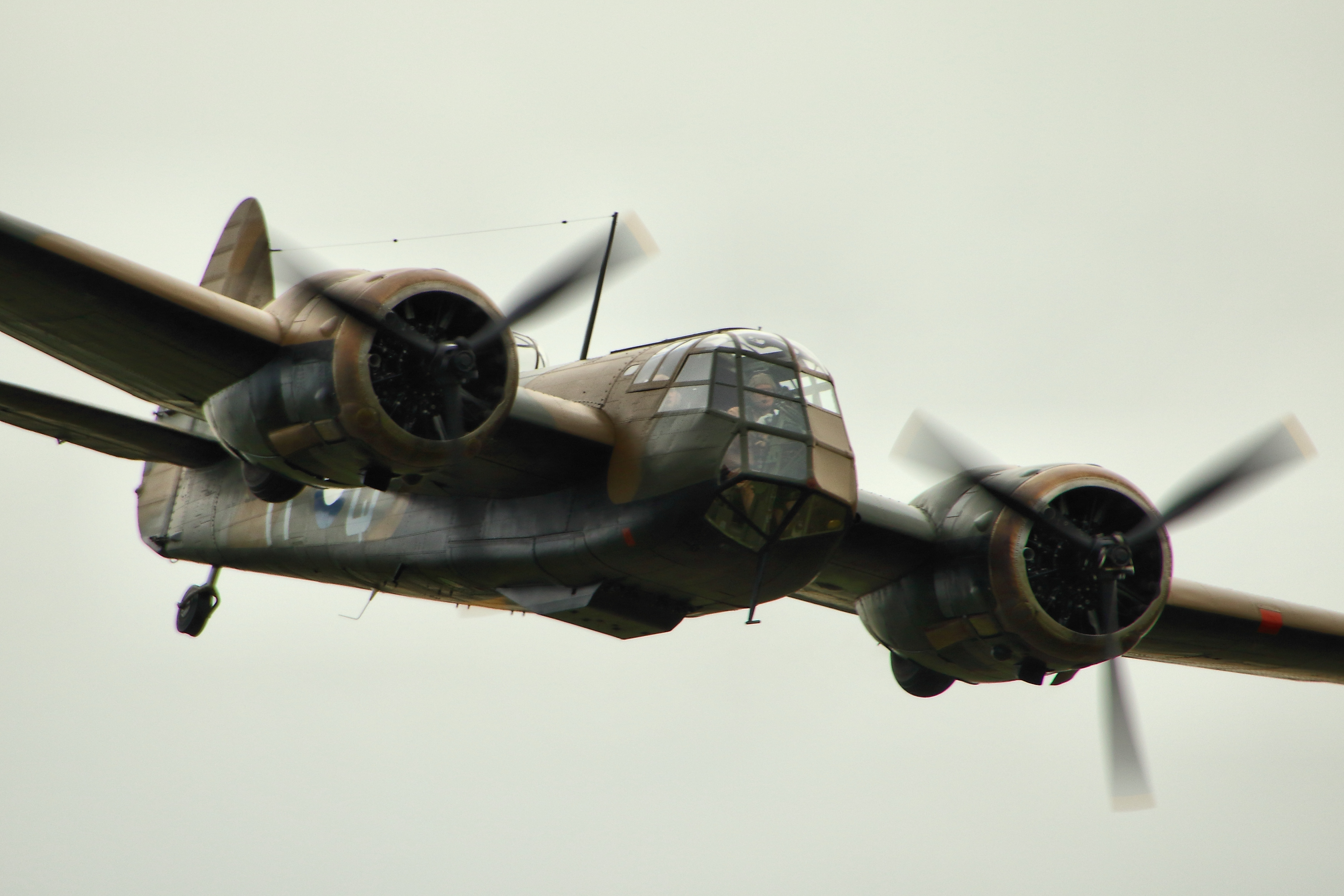 Bristol Blenheim at Duxford